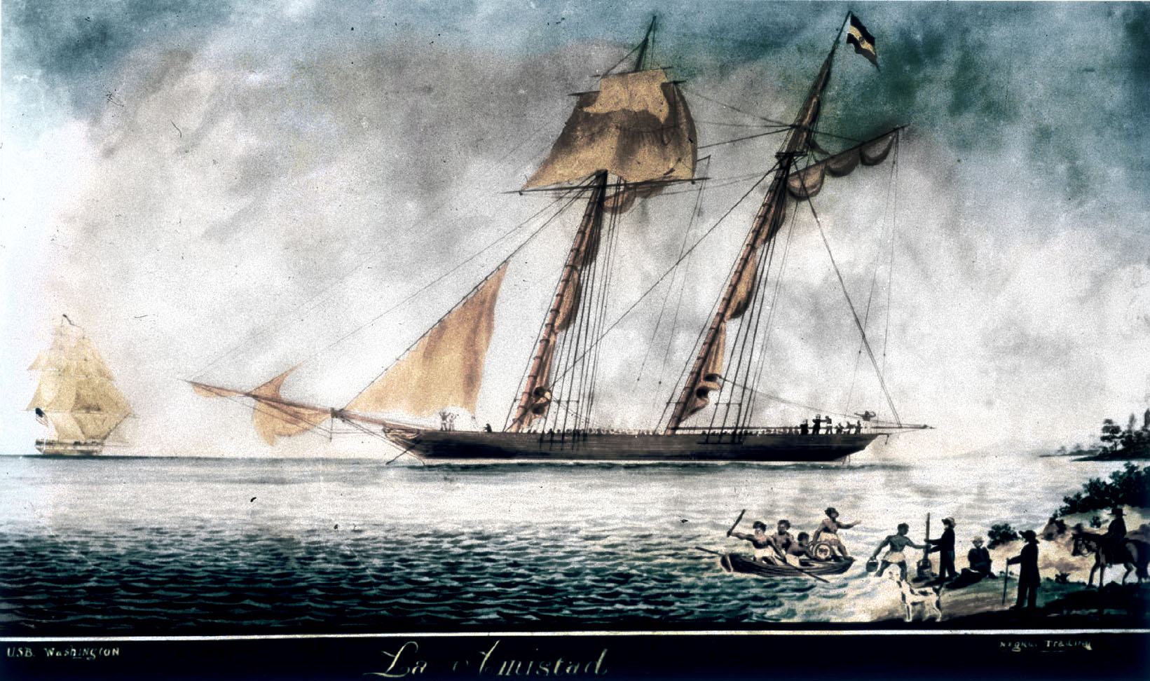 Contemporary painting of the sailing vessel La Amistad off Culloden Point, Long Island, New York, on 26 August 1839; on the left the USS Washington of the US Navy (oil painting)